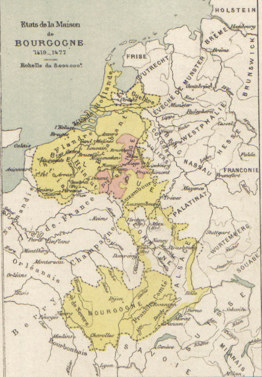 Maps of the states of the dynasty of the Grand-Dukes of Bourgogne